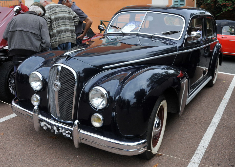 Hotchkiss cars were made between 1903 and 1955 by the French company Hotchkiss et Cie in Saint-Denis, Paris. Founded in 1871 by American expatriate Benjamin Berkeley Hotchkiss as an arms manufacturer, the badge for the marque shows a pair of crossed cannons, evoking the company's earlier history.